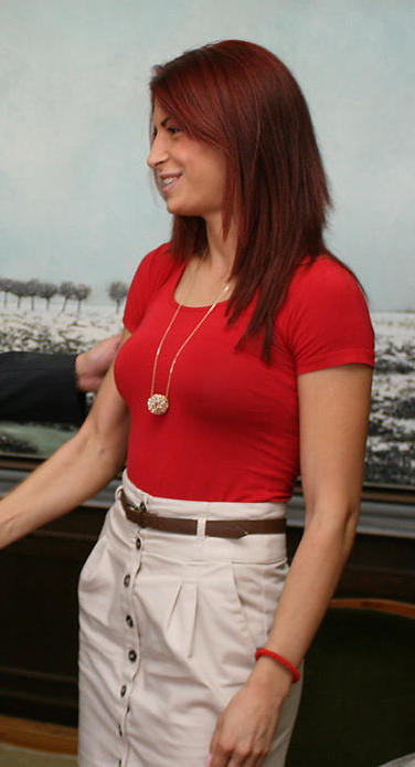 Bojan Pajtić & Ivana Španović